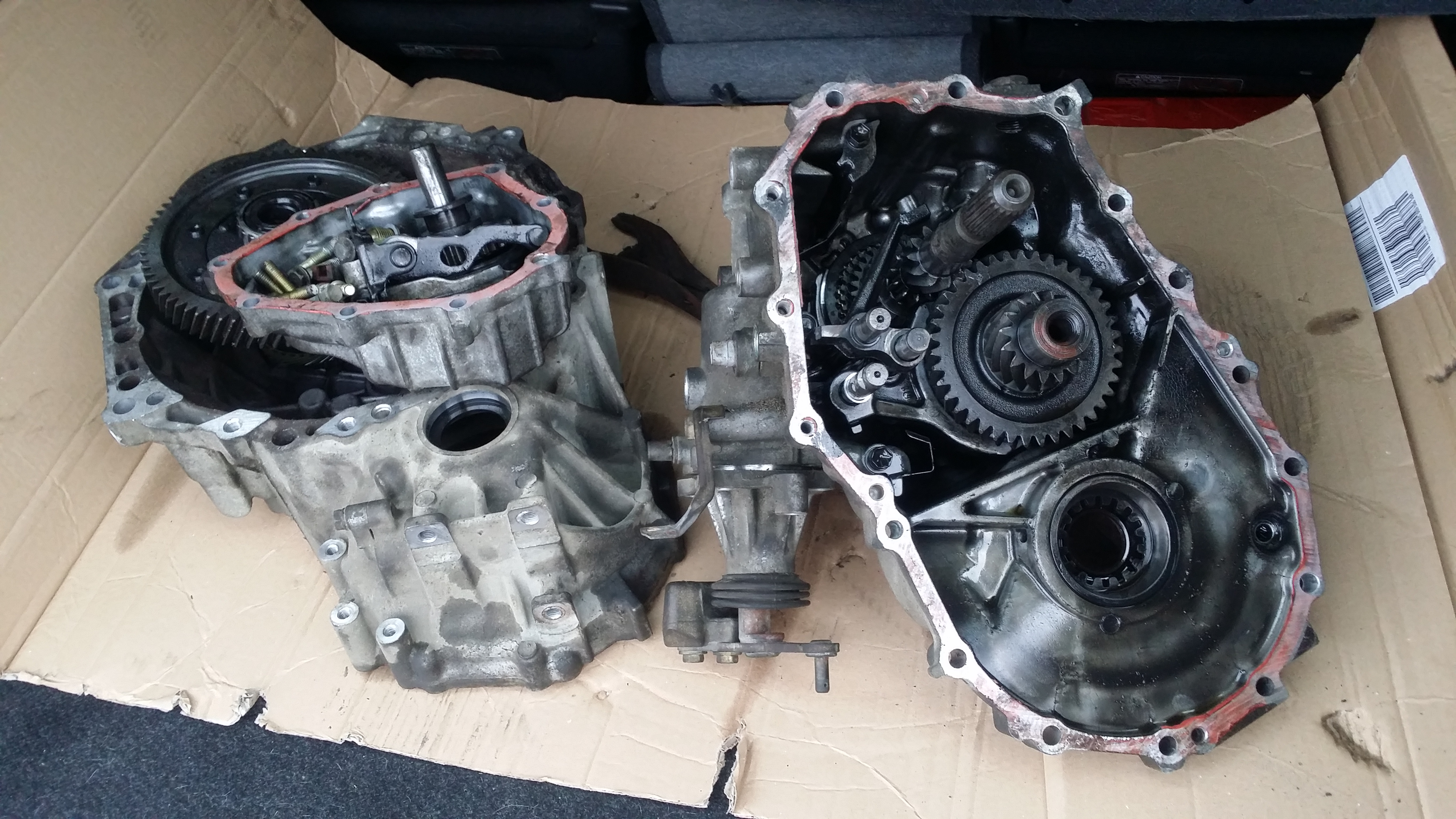 Toyota manual 5 speed transmission 30300-13070 from the C50 gearbox family.